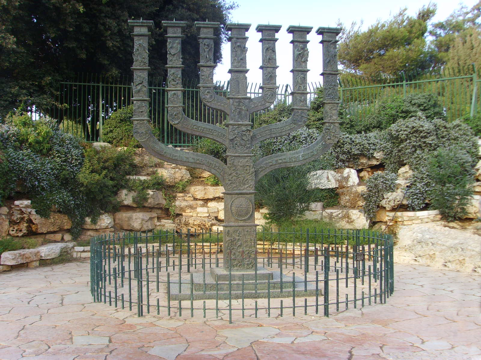 Opposite the main entrance of the Knesset is this chandelier made by Benno Elkan. It is 5 meters high and 4 meters broad and shows 29 reliefs of Jewish history. Source: self-made Date: October 2007 Author: Effi Schweizer